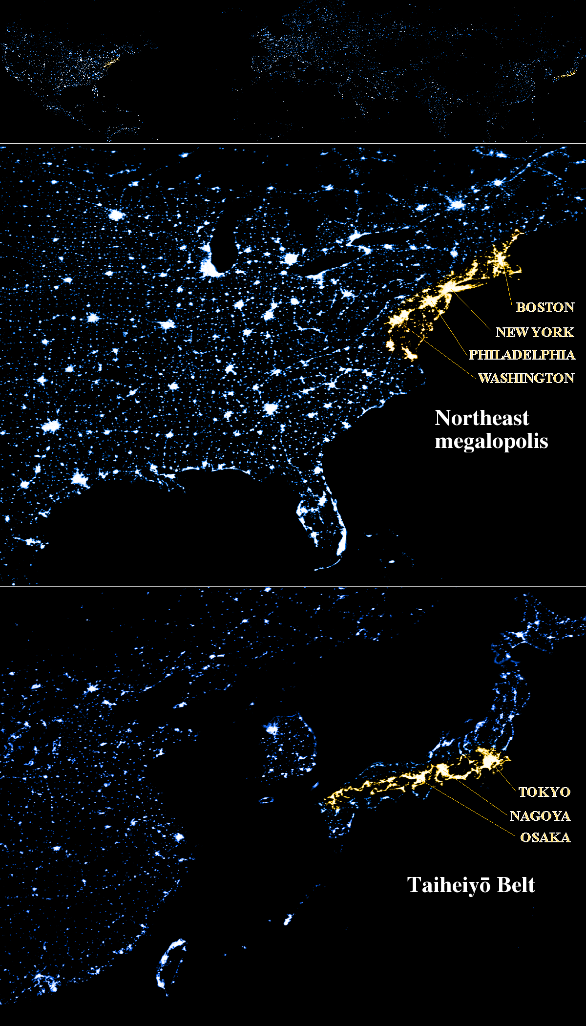 A to scale comparison of the BosWash and Taiheiyō Belt megalopolises with metropolitan areas of larger than 5 million people labeled. BosWash uses the Portland ME MSA to Virginia Beach VA MSA definition which has 55 million people according to its article.